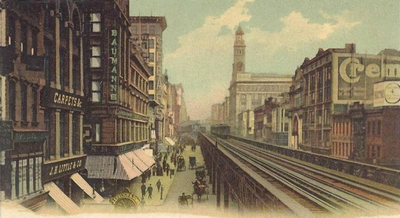 Sixth Avenue, looking north from 14th Street, New York City